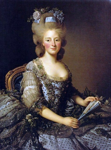 Portrait of Archduchess Maria Amalia of Austria (1746-1804)